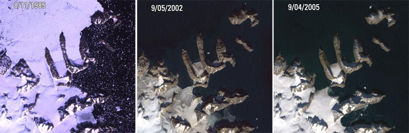 Warming Island, Greenland L5, L7 ETM+ Acquisition Date: Aug 11, 1985 & Sep 05, 2002 & Sep 04, 2005 Path/Row: 227/9 Lat/Long: 72.207/-22.180 On January 16th, 2007, the New York Times reported that a new island had been found in Greenland. Warming Island was once thought to be an ice-covered peninsula, but it was exposed as an island when a glacier melted to reveal the strait. This image shows satellite pictures of the island in 1985 when the glacier had firmly tied it to the mainland, in 2002 when there was only a thin bridge of ice, and in 2005 when the bridge of ice has broken to reveal an open water strait. More islands like this may be discovered if the Greenland ice sheet continues to disappear.